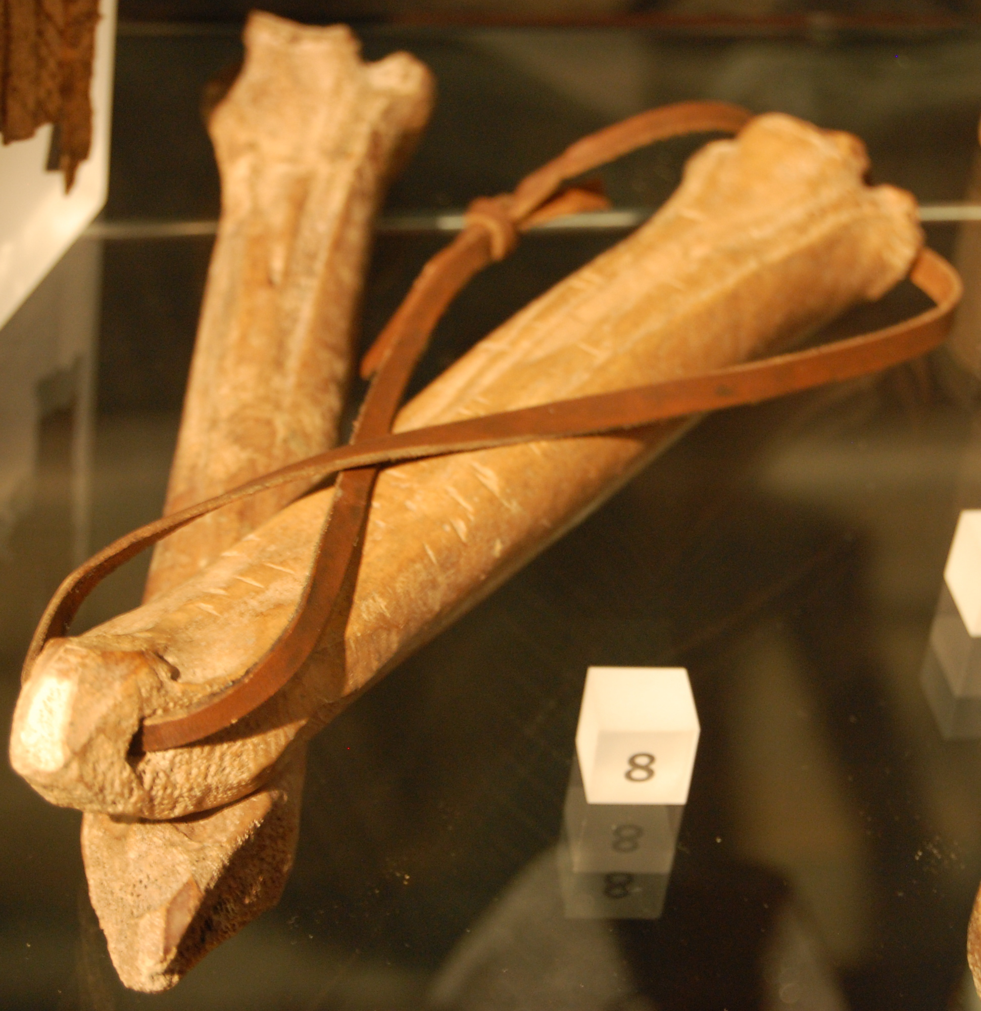 Medieval bone skates on display at the Museum of London. The accompanying label quoted a 12-century description of skating in London by William FitzStephen (Londoners would "fit to their feet the shinbones of cattle" and propel themselves with an iron-tipped stick).